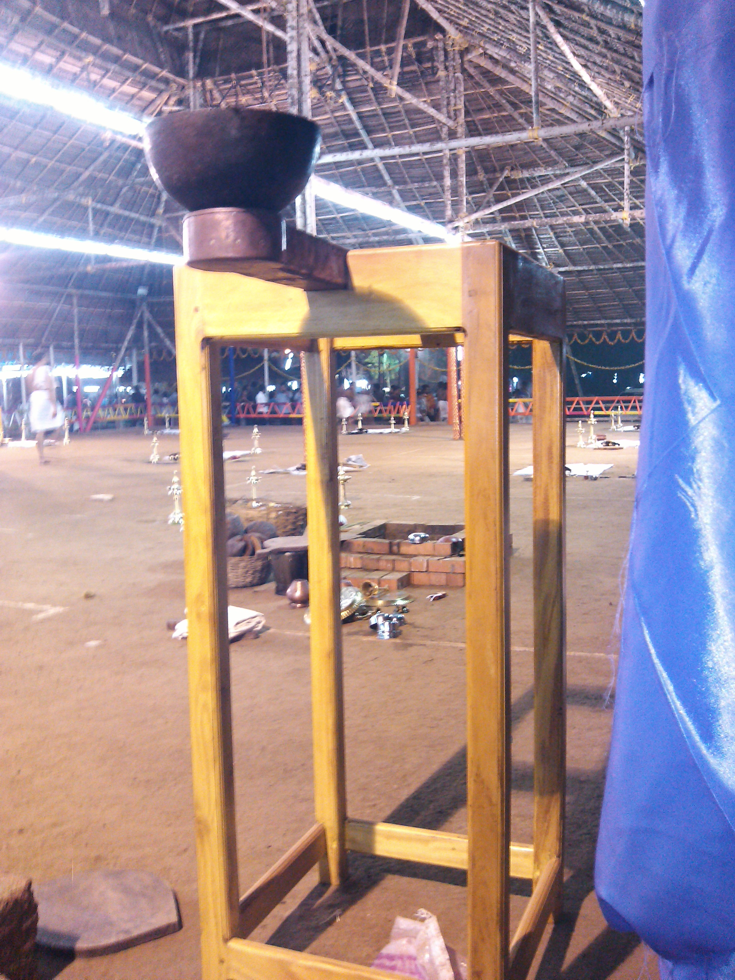 Prasekam is used for yajnam like athirudram